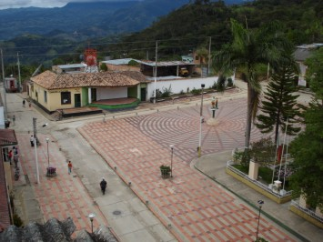 Main Park